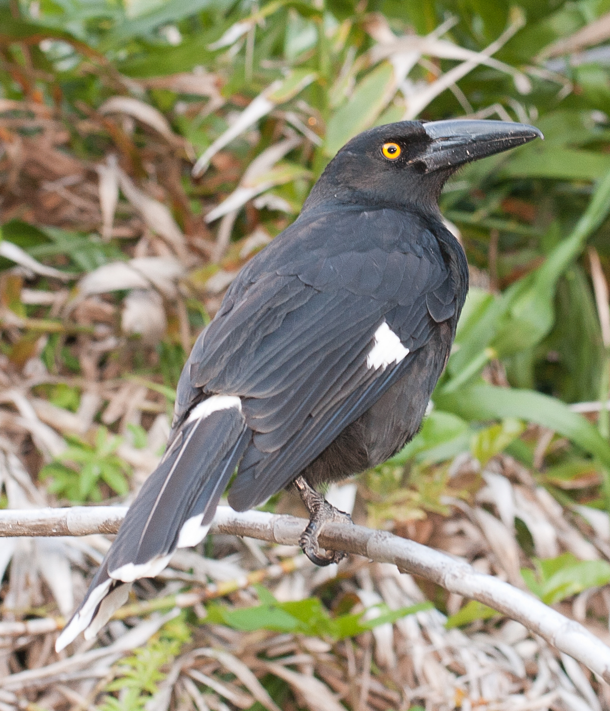 Lord Howe Island lagoon Lord Howe Island Currawong (Strepera graculina crissalis)